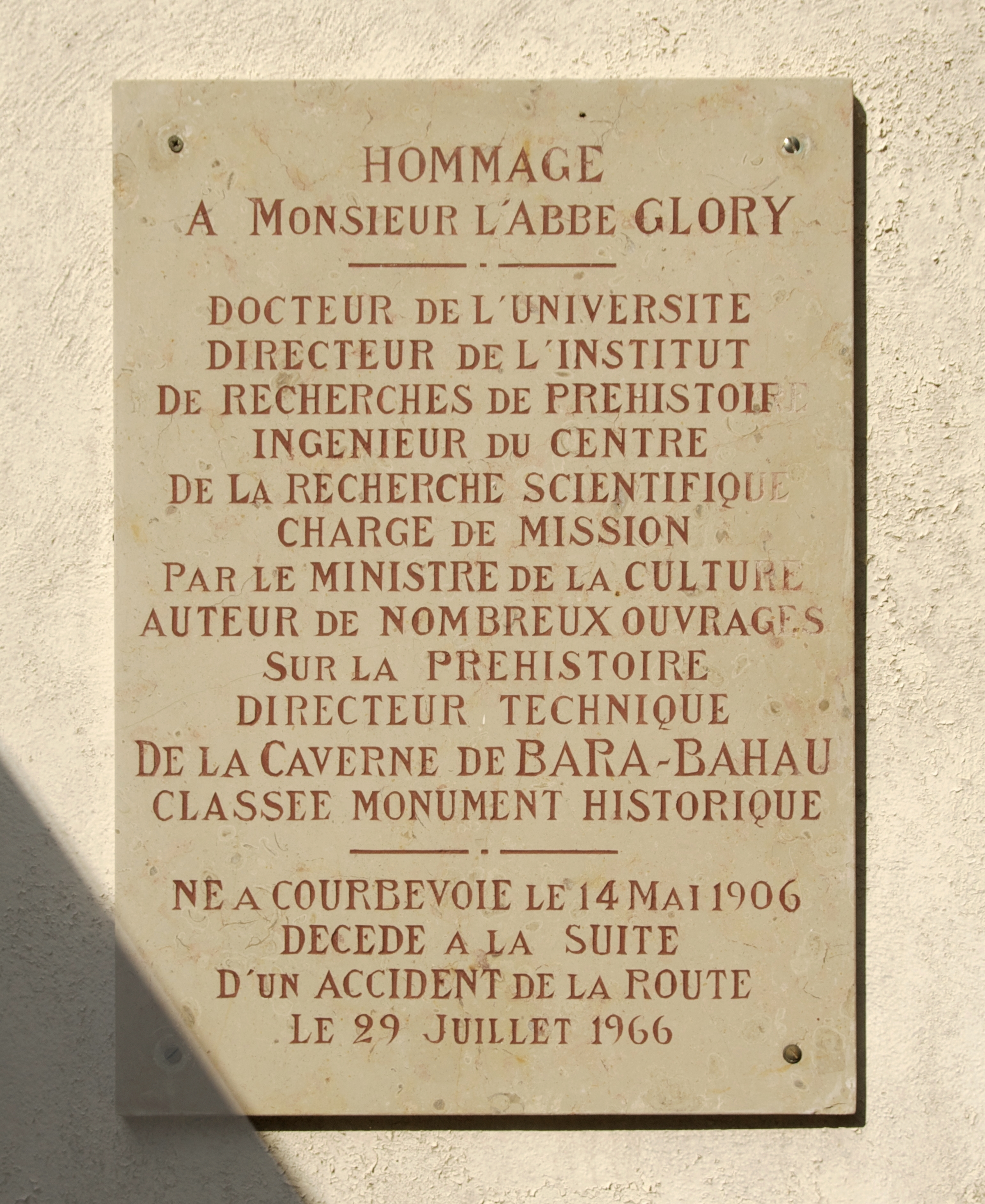 Tribute to Abbot André Glory, at the entrance of the Bara-Bahau prehistoric cave in Le Bugue, Dordogne, France.